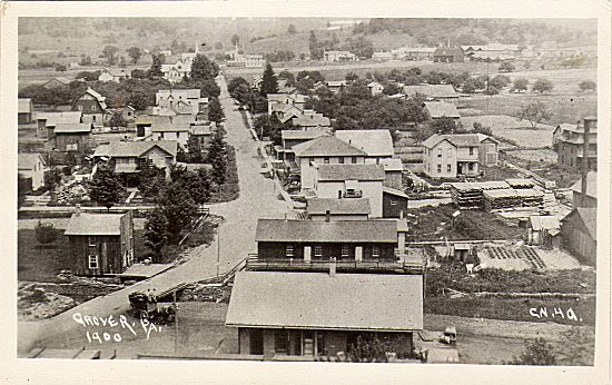 Grover, Pennsylvania photo dated 1900 in lower left hand corner